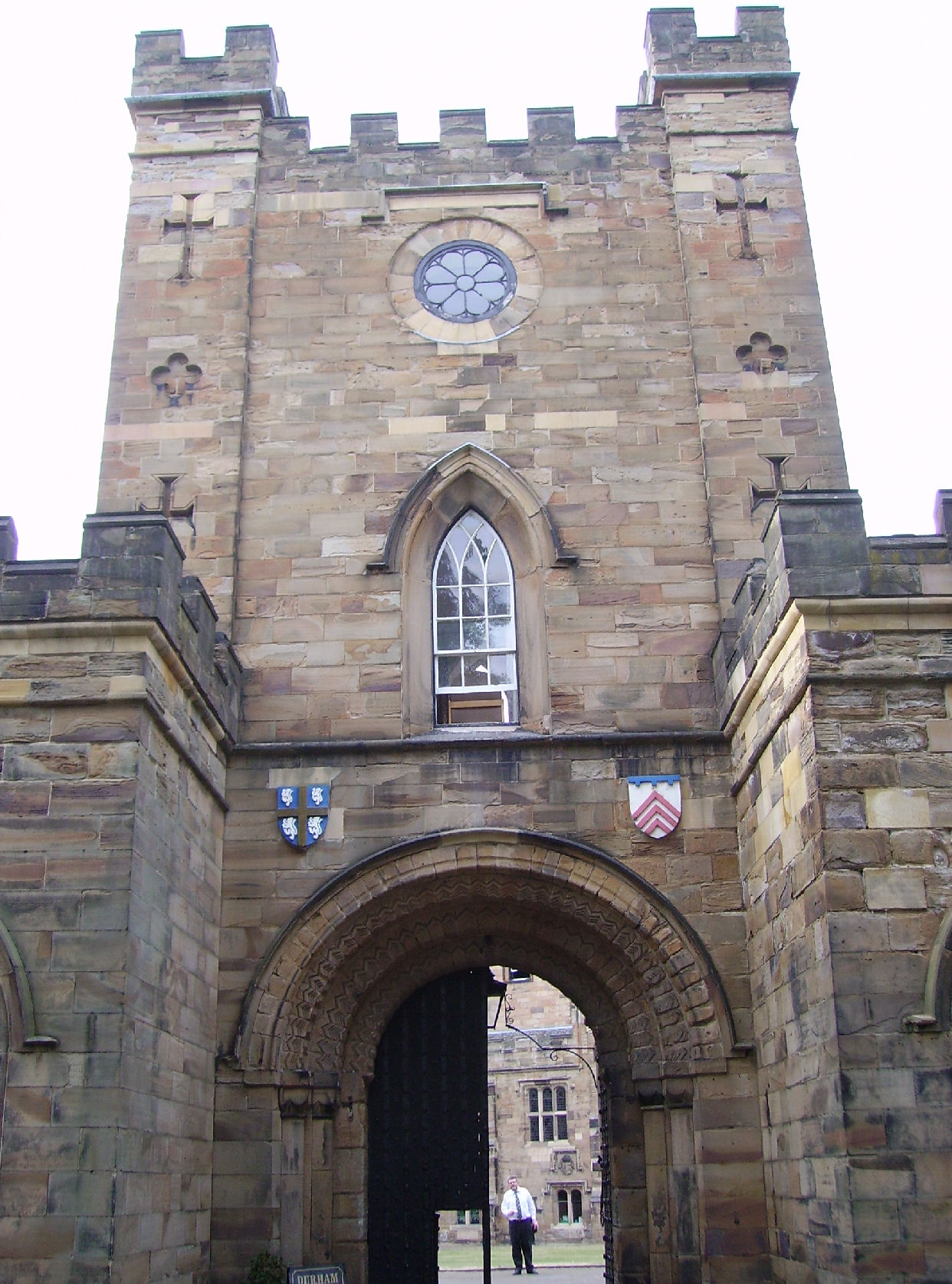 view of Durham Castle in Durham, England. Left: arms of the See of Durham; right: Argent three chevronels gules a label of three points azure, arms of Shute Barrington (1734-1826), Bishop of Durham 1791-1826